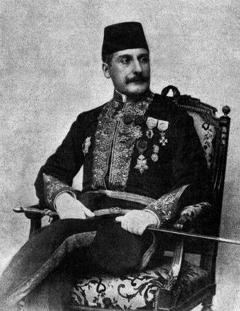 Dimitrios Mavrogenis Bey (1851-1921), a Greek senior consular employee of the Ottoman Empire